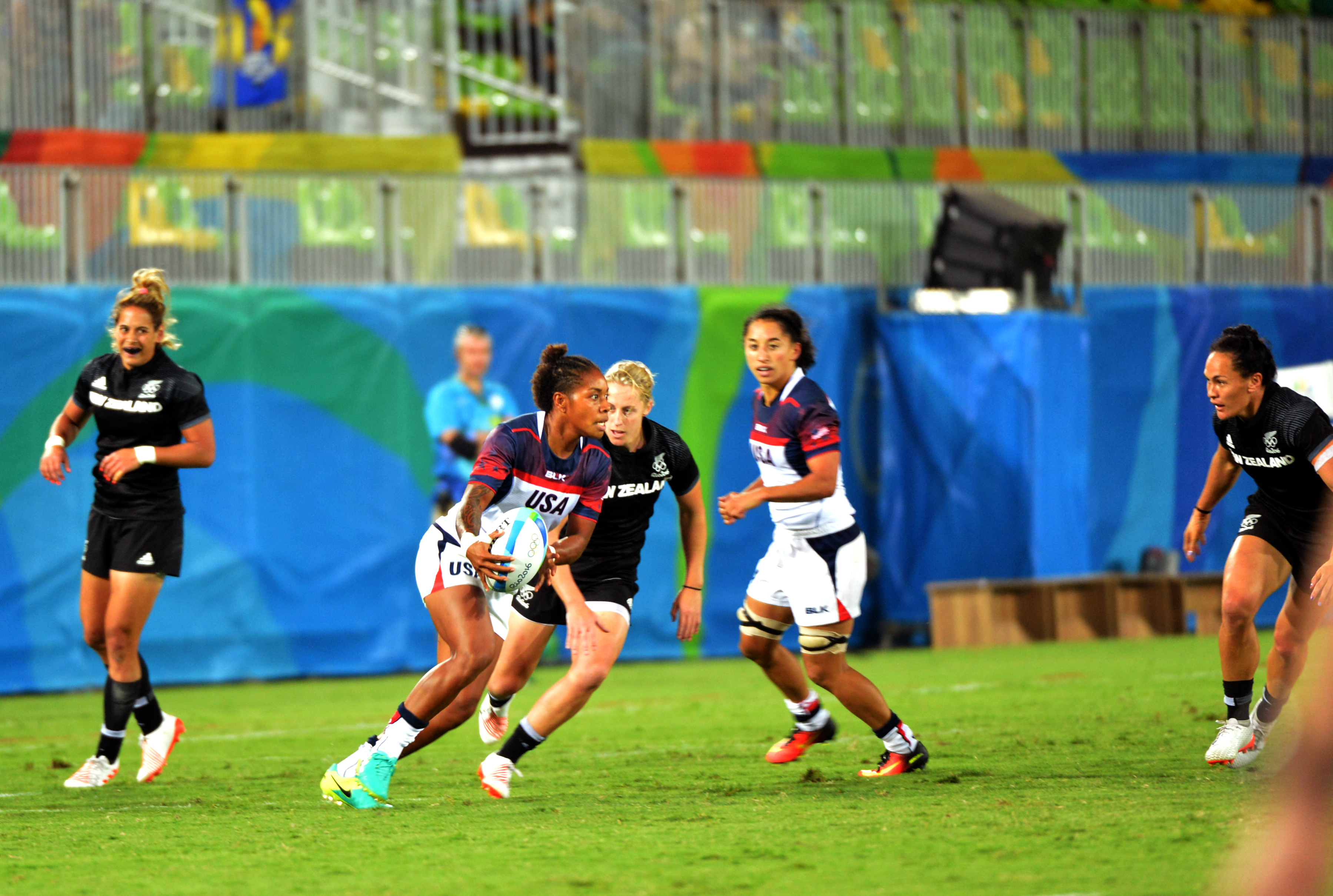 The U.S. women's rugby sevens squad, led by assistant coach Capt. Andrew Locke of the U.S. Army World Class Athlete Program, drops a 5-0 decision to New Zealand on Aug. 7 en route to a fifth-place finish in the tournament, the first in Olympic history for women's rugby sevens. U.S. Army photo by Tim Hipps, IMCOM Public Affairs